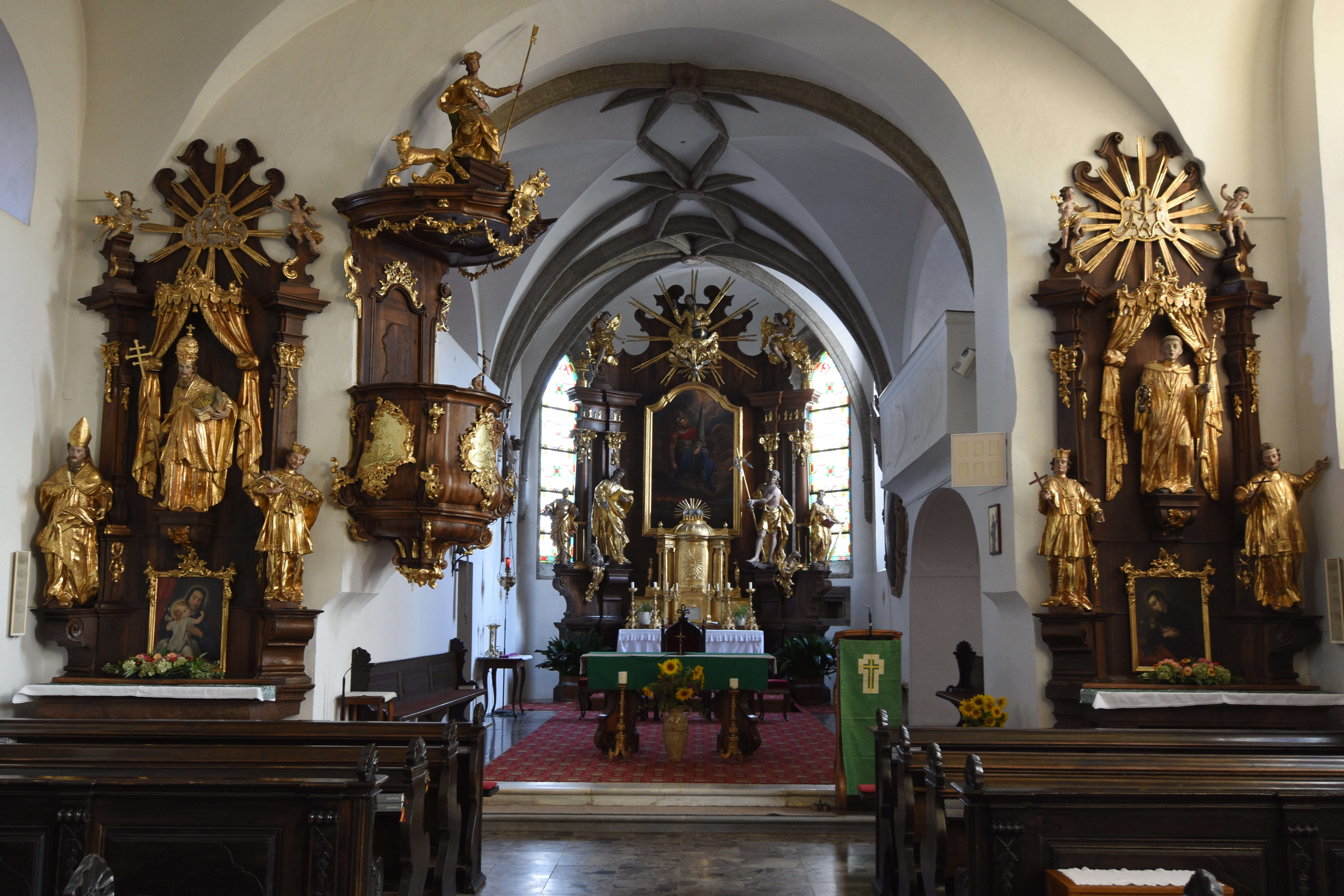 Saint Florian Church Kirchberg an der Raab - Interior